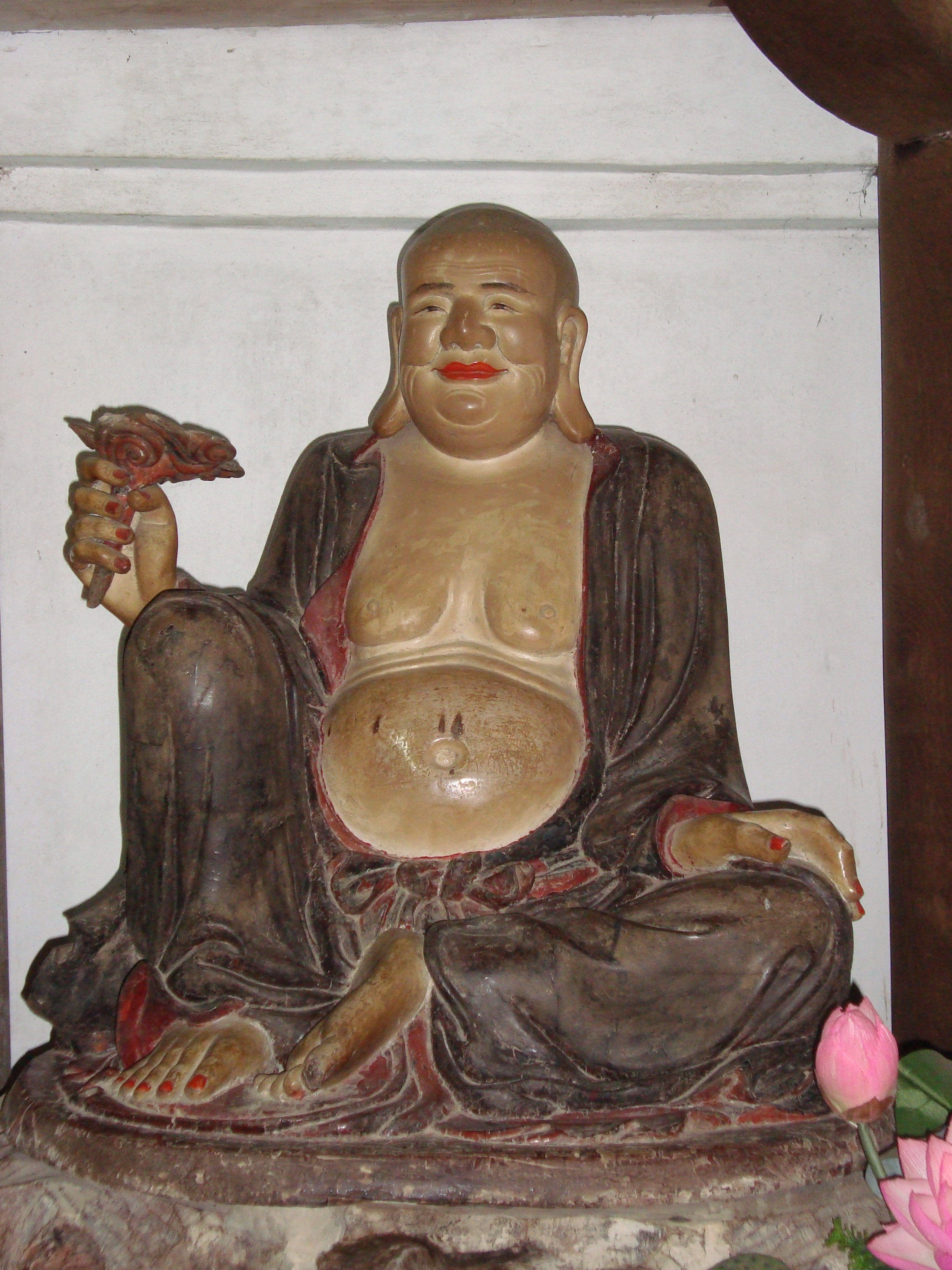 One of the eighteen arhat statues at Tây Phương Buddhist Temple, Thạch Thất District, Hanoi, Vietnam.